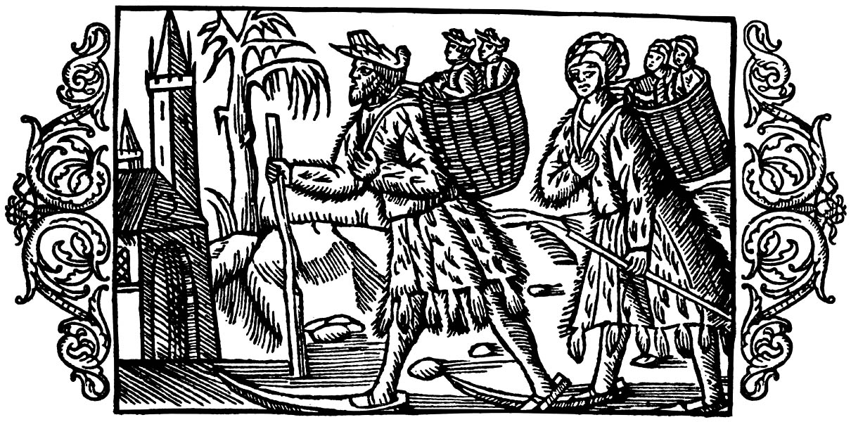 A Lap and his with skis on their feet approaches a church where the Christening will take place. They are dressed in coats of fur. On their backs they carry baskets with two children each. The baskets probably also contains gifts to the priest.